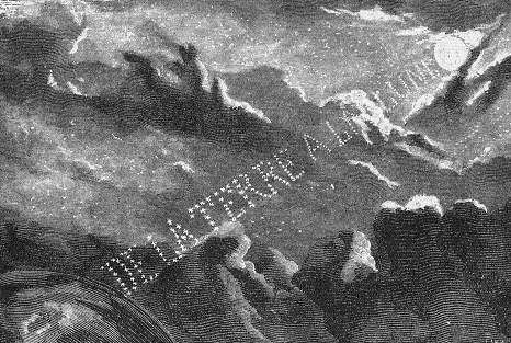 An illustration from the novel "From the Earth to the Moon" by Jules Verne drawn by Henri de Montaut.